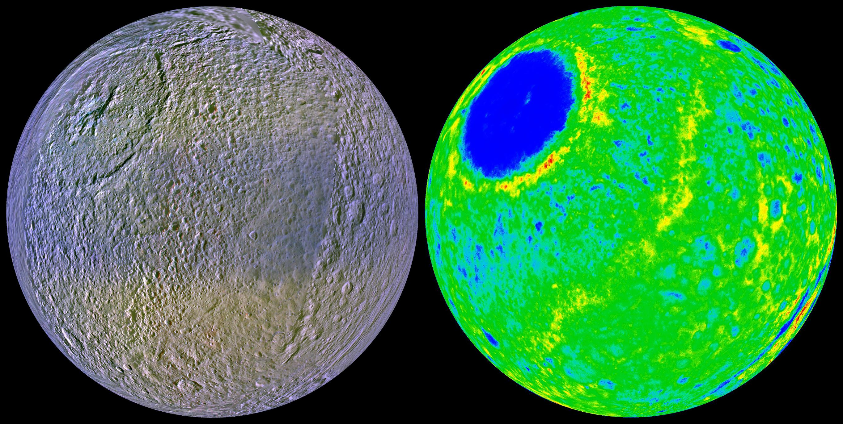 High resolution color map (left) and topography of Saturn's moon Tethys, by the Cassini orboter.